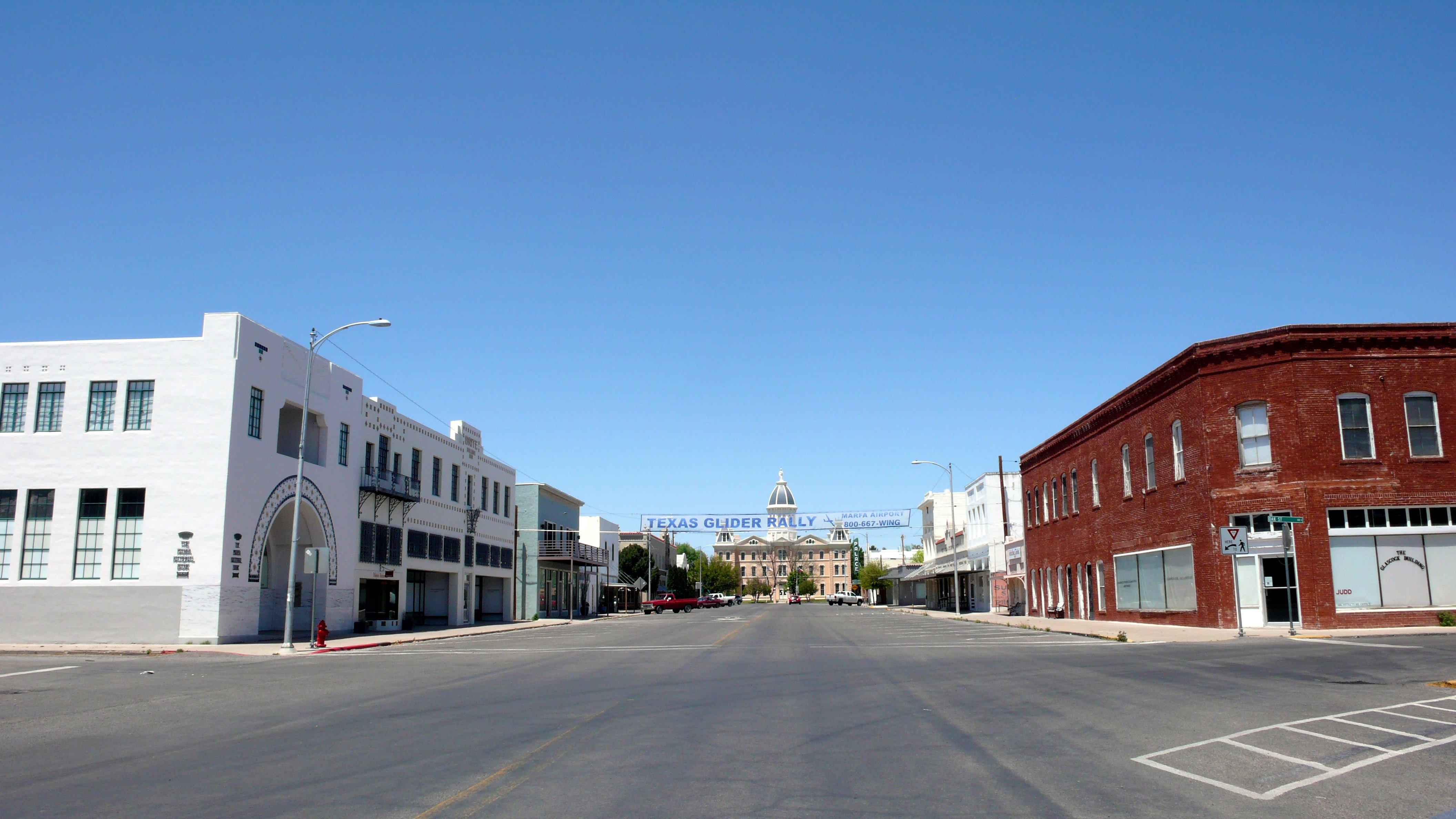 Looking towards the courthouse from intersection of Oak St. and Highland Ave. in Marfa, Texas, USA